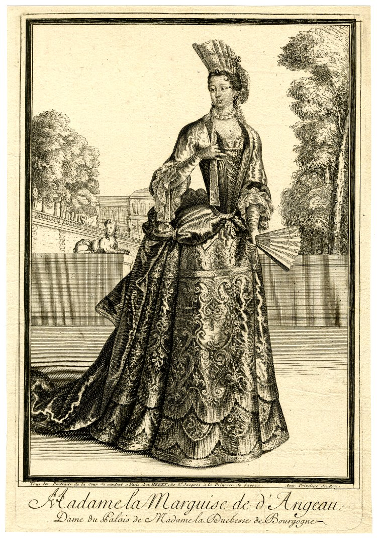 Portrait of: Sophia Maria Wilhelmina von Löwenstein-Wertheim-Rochefort, Marquise de Dangeau Dame du Palais de Madame la duchesse de Bourgogne whole length, standing on a terrace in a park, directed to right and looking to left, wearing fontange and mantua, and holding a fan in her left hand Etching